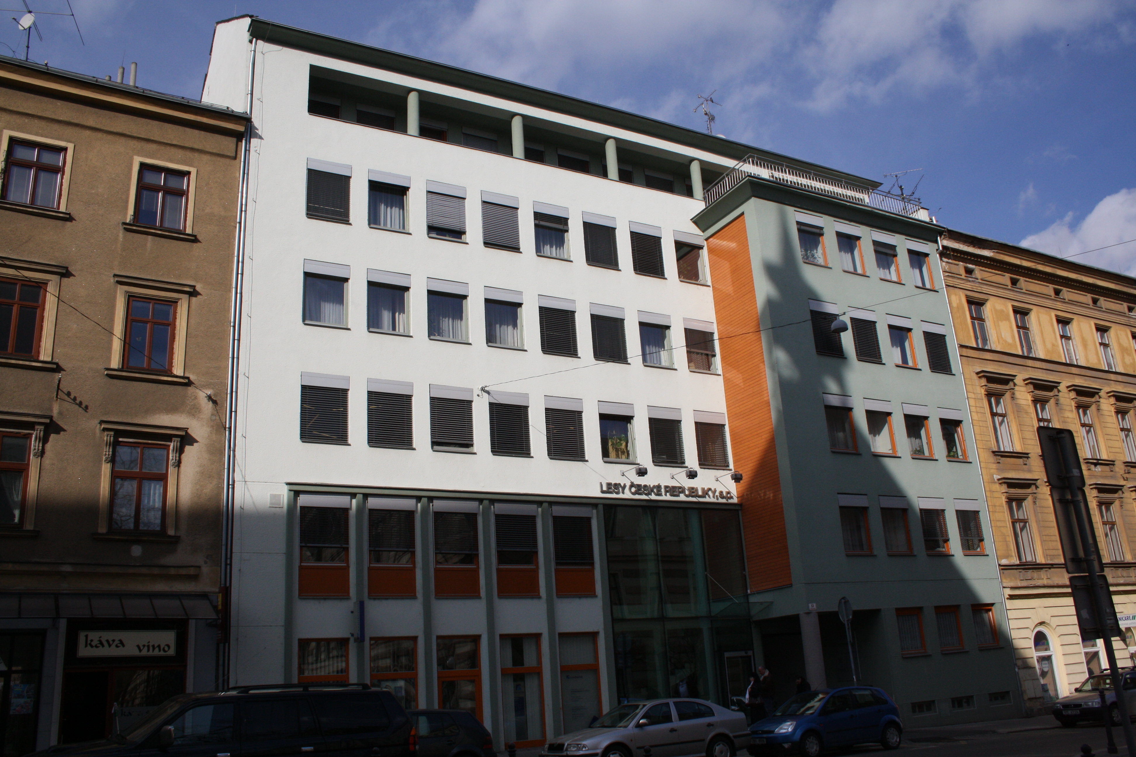 Building of Lesy ČR in Brno-Center..